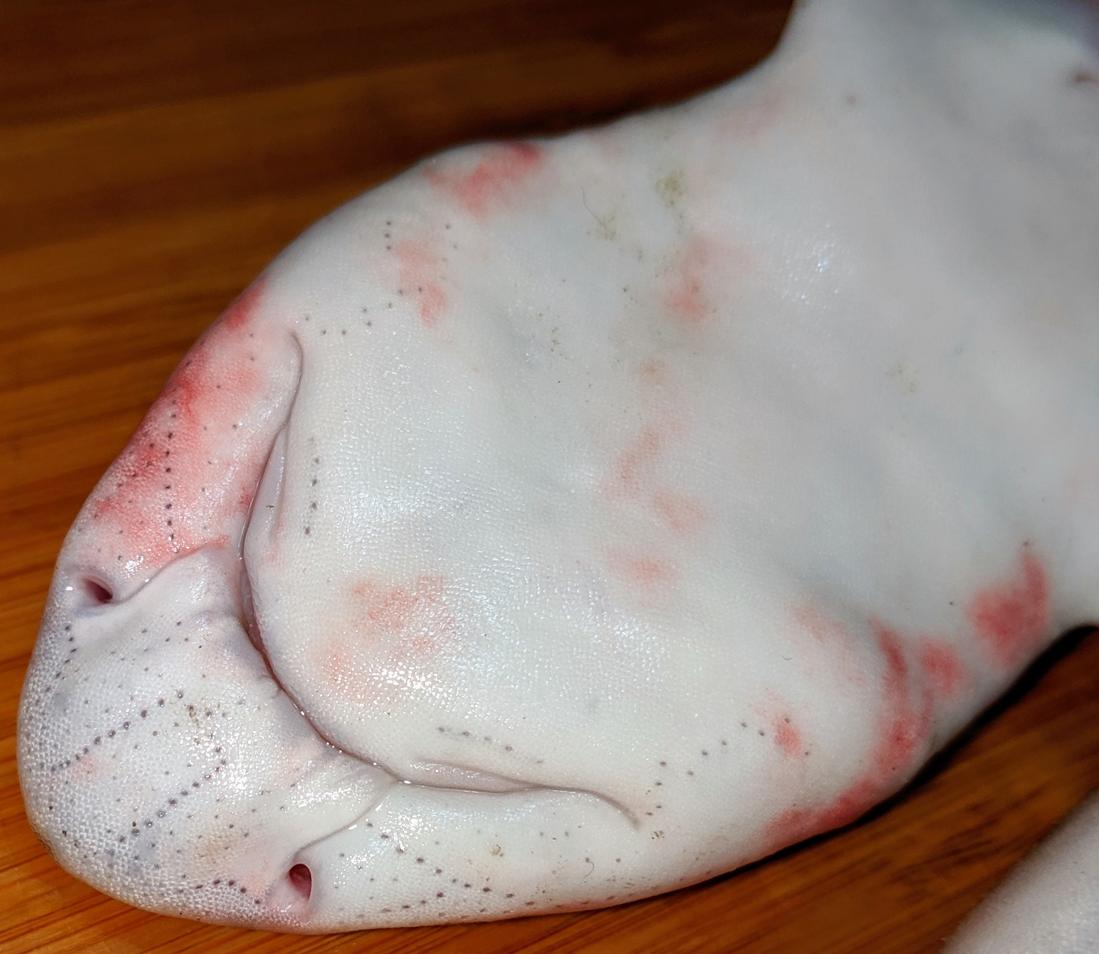 Ampullae_of_Lorenzini in Scyliorhinus canicula